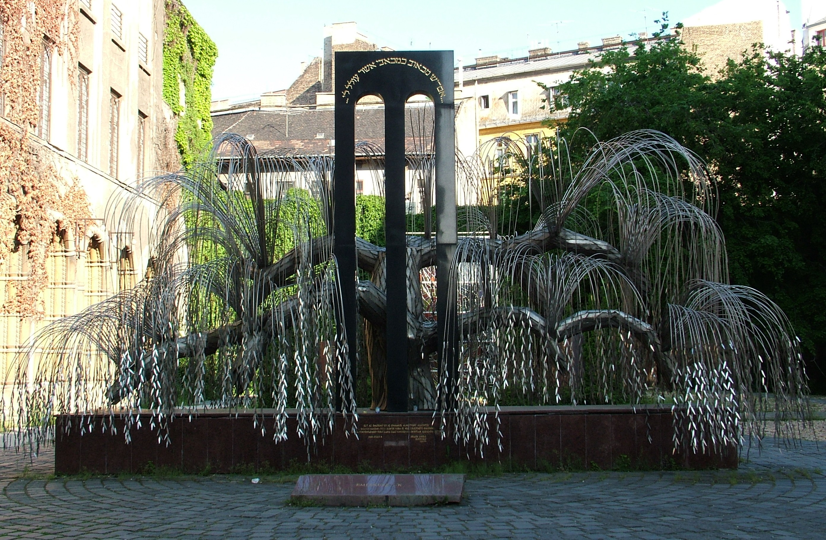 Memorial of the Hungarian Jewish Martyrs, Dohány Street Synagogue, Budapest (by Imre Varga).